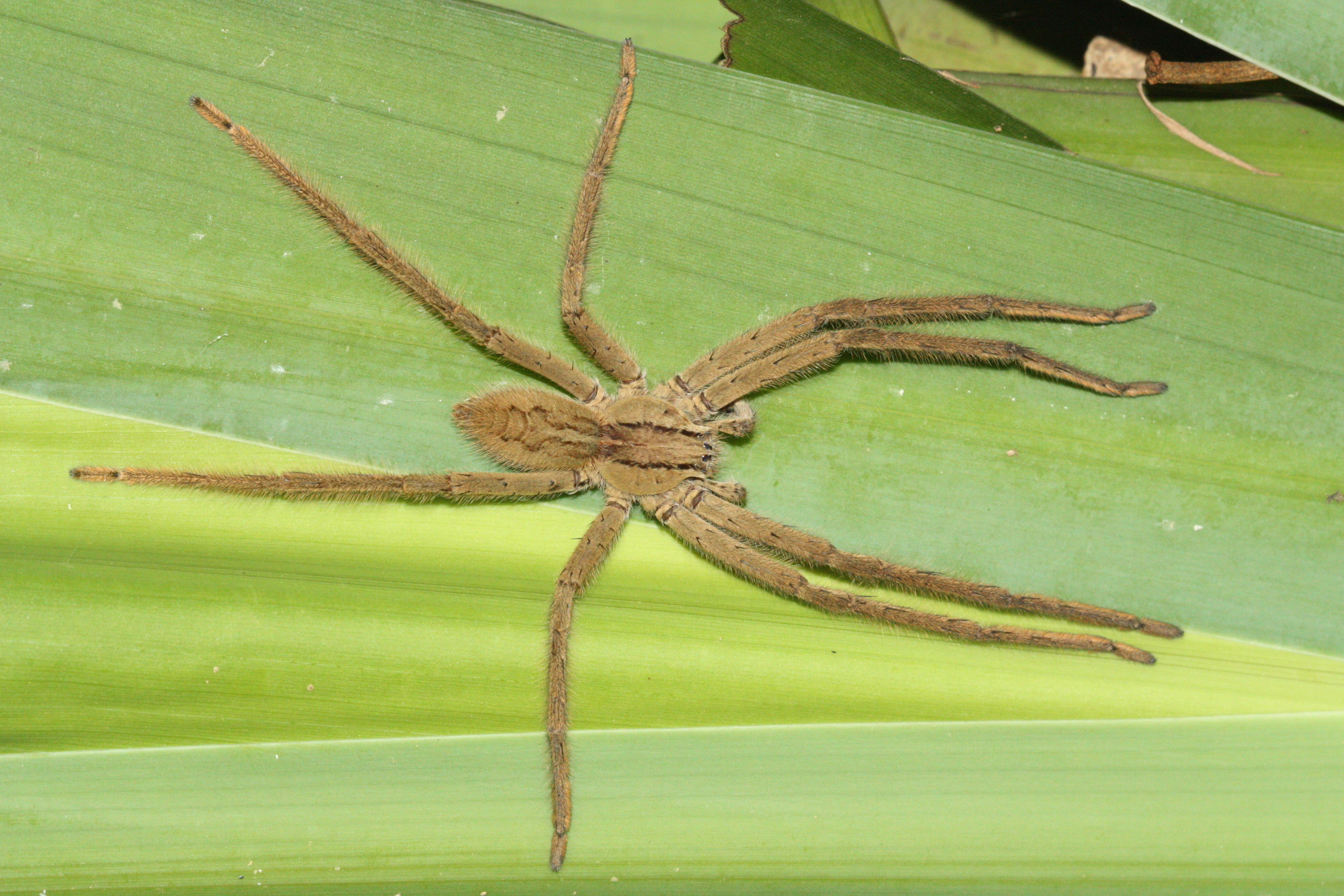 Cupiennius salei, Adult Male. In lower elevation of Parque Nacional Cusuco, Dept. Cortés, Honduras